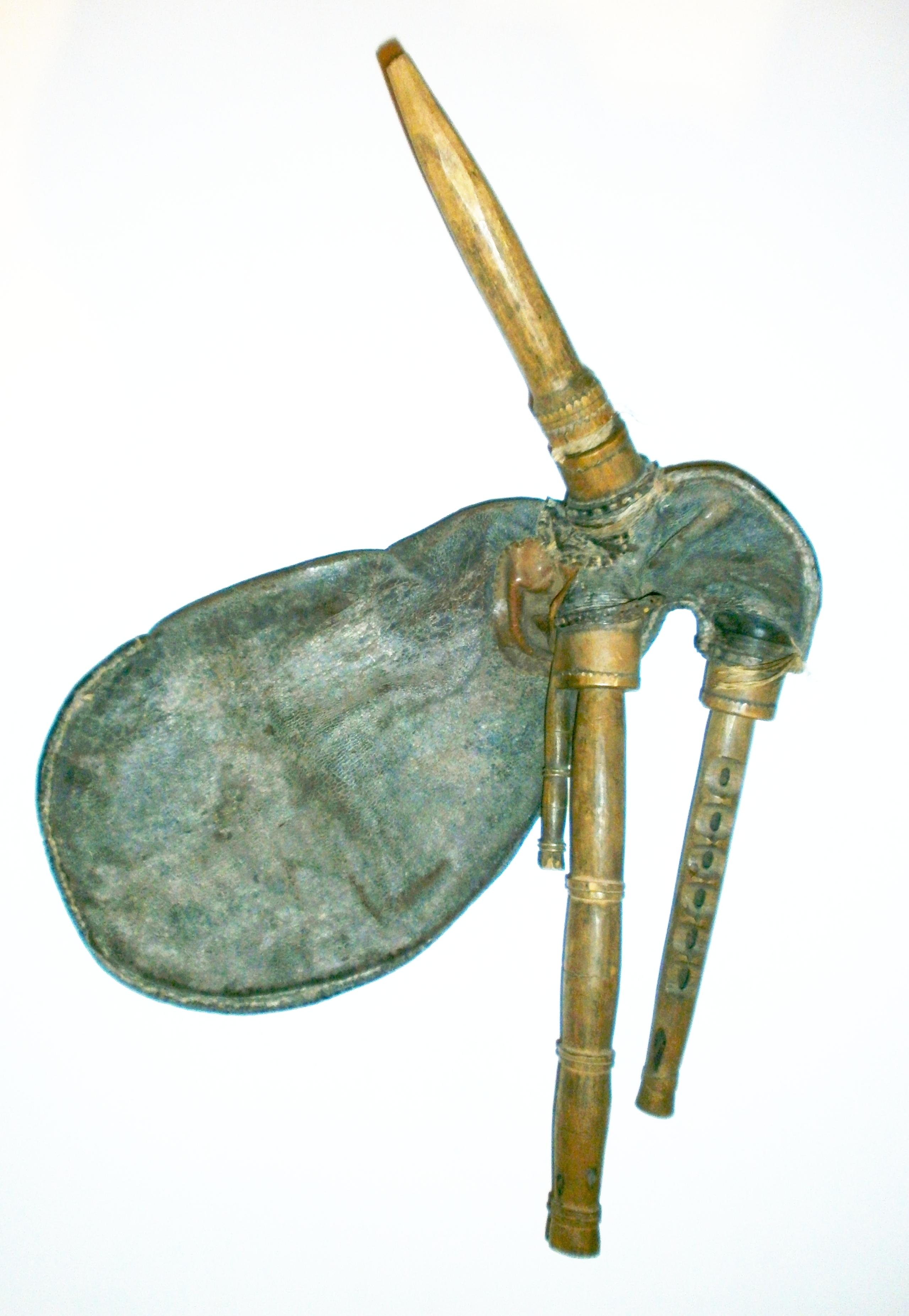 A 17th Century Swedish bagpipe from Bäsna, Gagnef